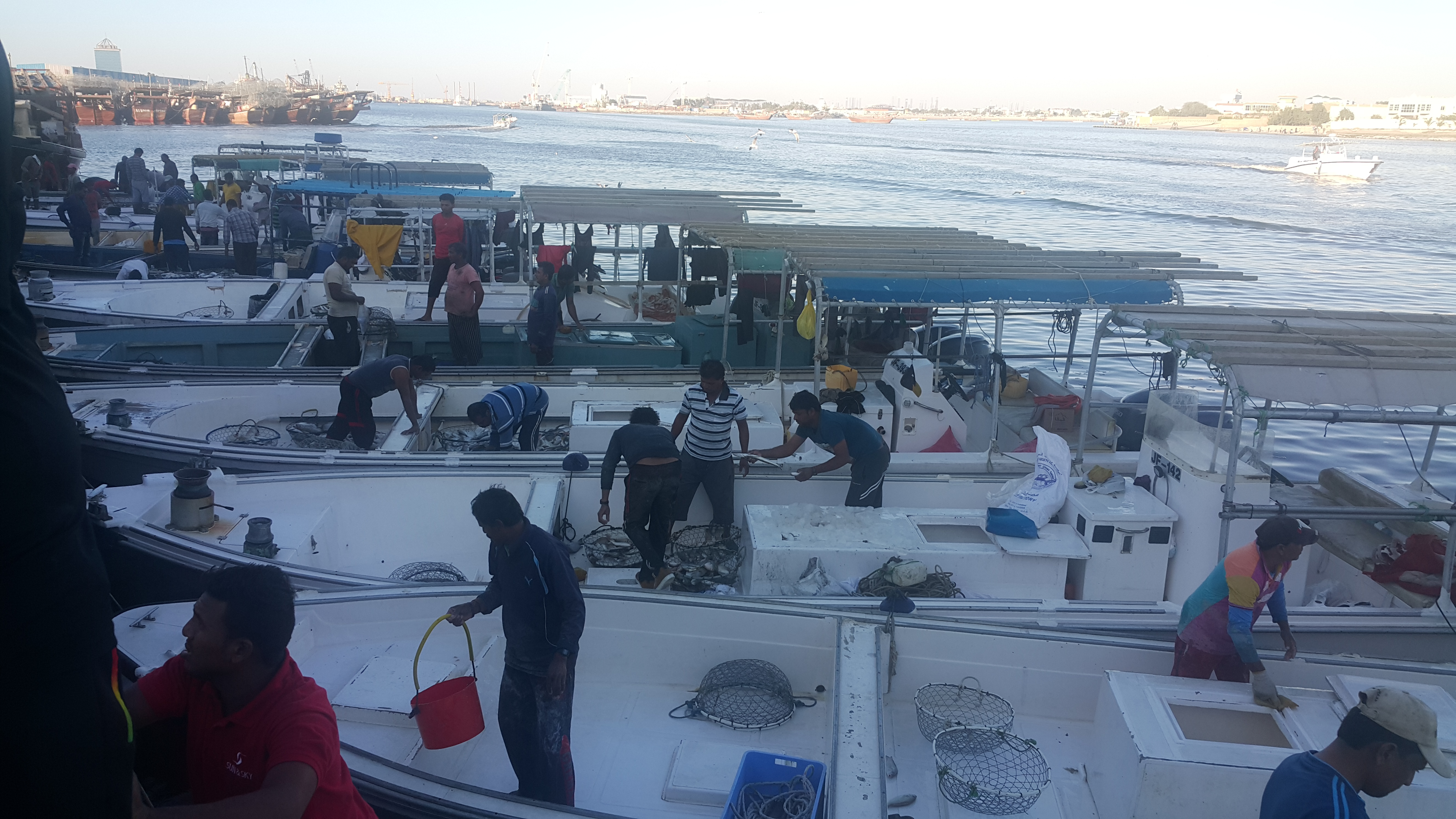 Harbour for the fishing boats in Ajman, fishermen with fish from Persian Gulf for the nearby fish market. In background: old ships.